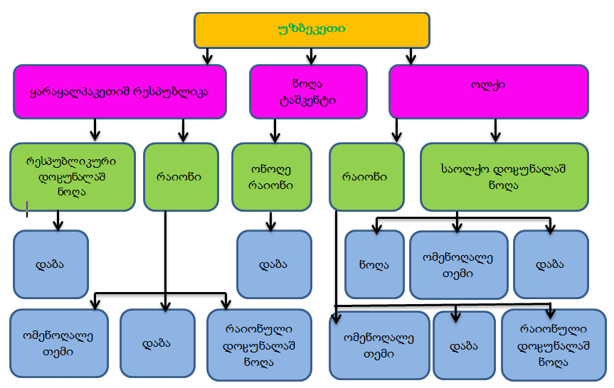 Subdivisions of Uzbekistan in Mingrelian language.